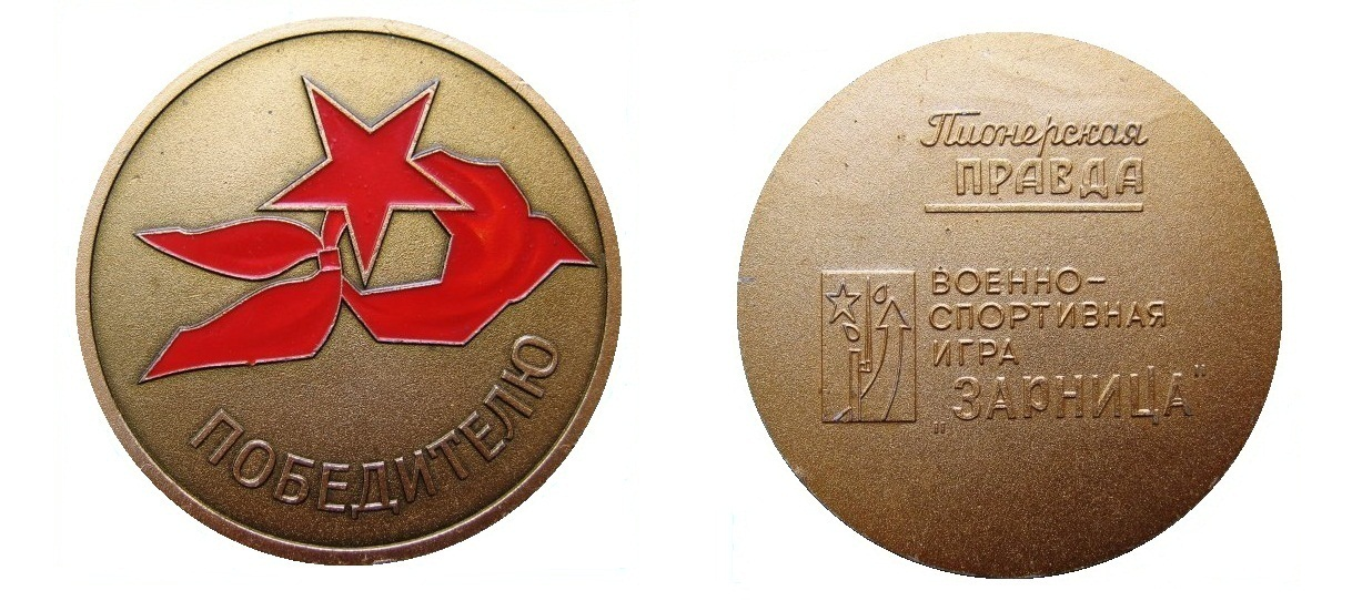 Medal Winner (Pionerskaya military sports game heat Lightning, the prize of the newspaper Pionerskaya Pravda)